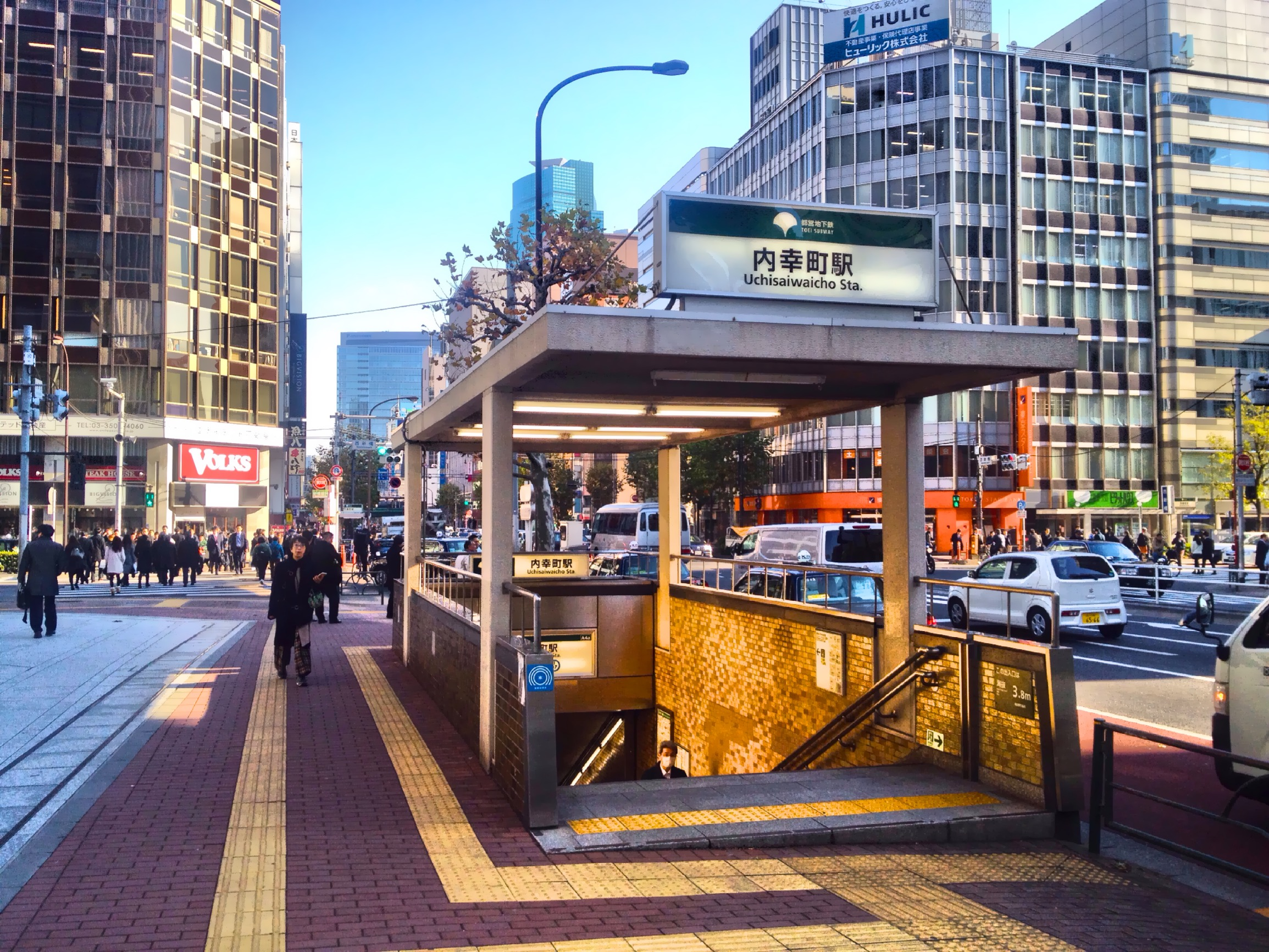 内幸町駅の入口 (Uchisaiwaicho Station entrance)